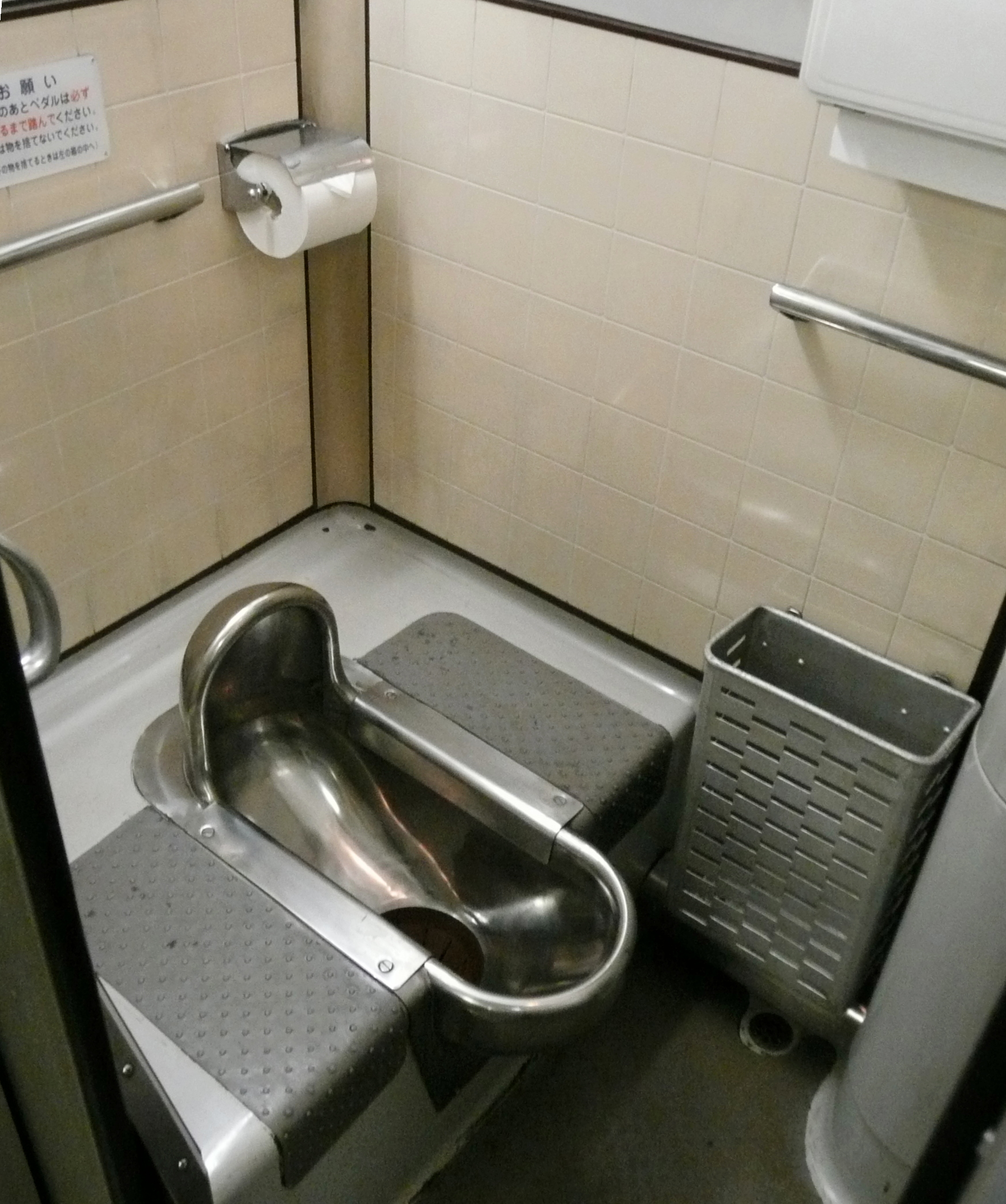 Ginga (train),Japanese style toilet